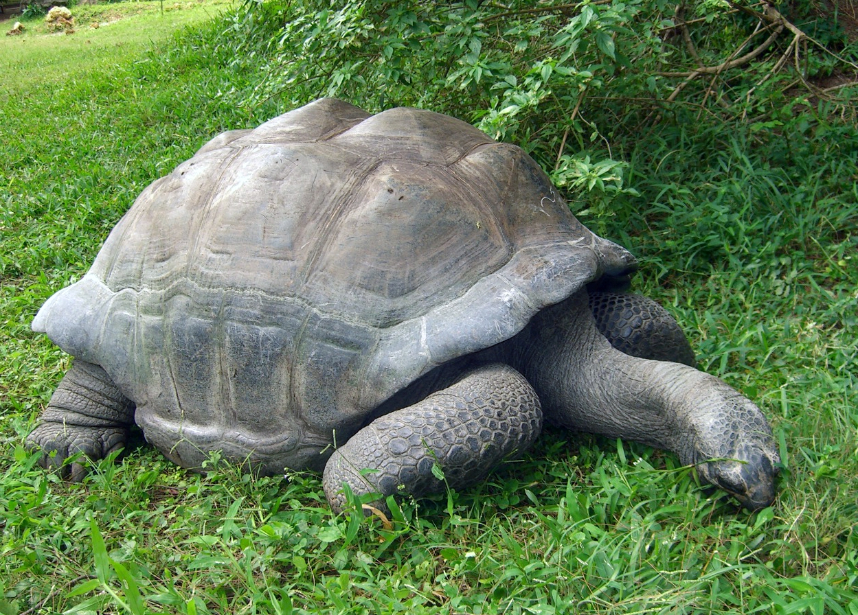 Giant tortoise in Mombasa, Haller Park (Bamburi Nature Trail) (aprox. 5 feet)